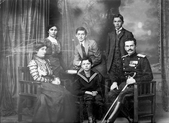 Dr Roman Sondermajer with family